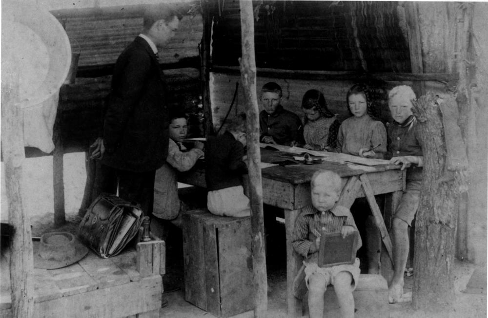 Teacher and class at a bush school, 1910-1914. F. W. Hodgins, Itinerant Teacher of the Tambo-Adavale area before the 1914-1918 War. He enlisted in Charleville. After the war, his first appointment was Peachester School, 1921 (Description supplied with photograph). The image is of the interior of a bush school. The teacher supervises a group of children sitting and working at a table inside a rough building. One boy at the front has a chalk board. Mr Hodgin's hat and bag are on a bench to the right.